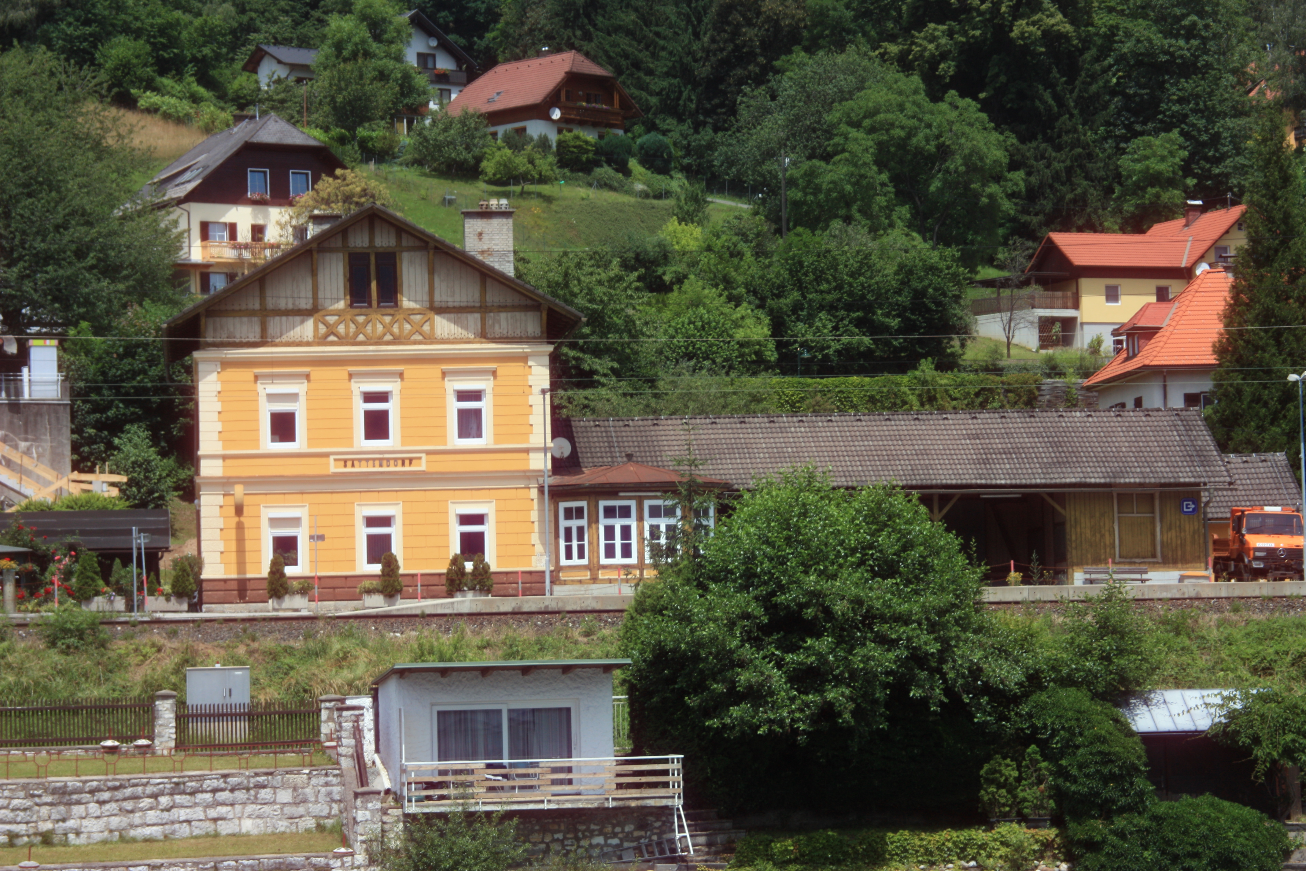 Train station Village:Sattendorf Community:Treffen District:Villach-Land State:Carinthia Country:Austria